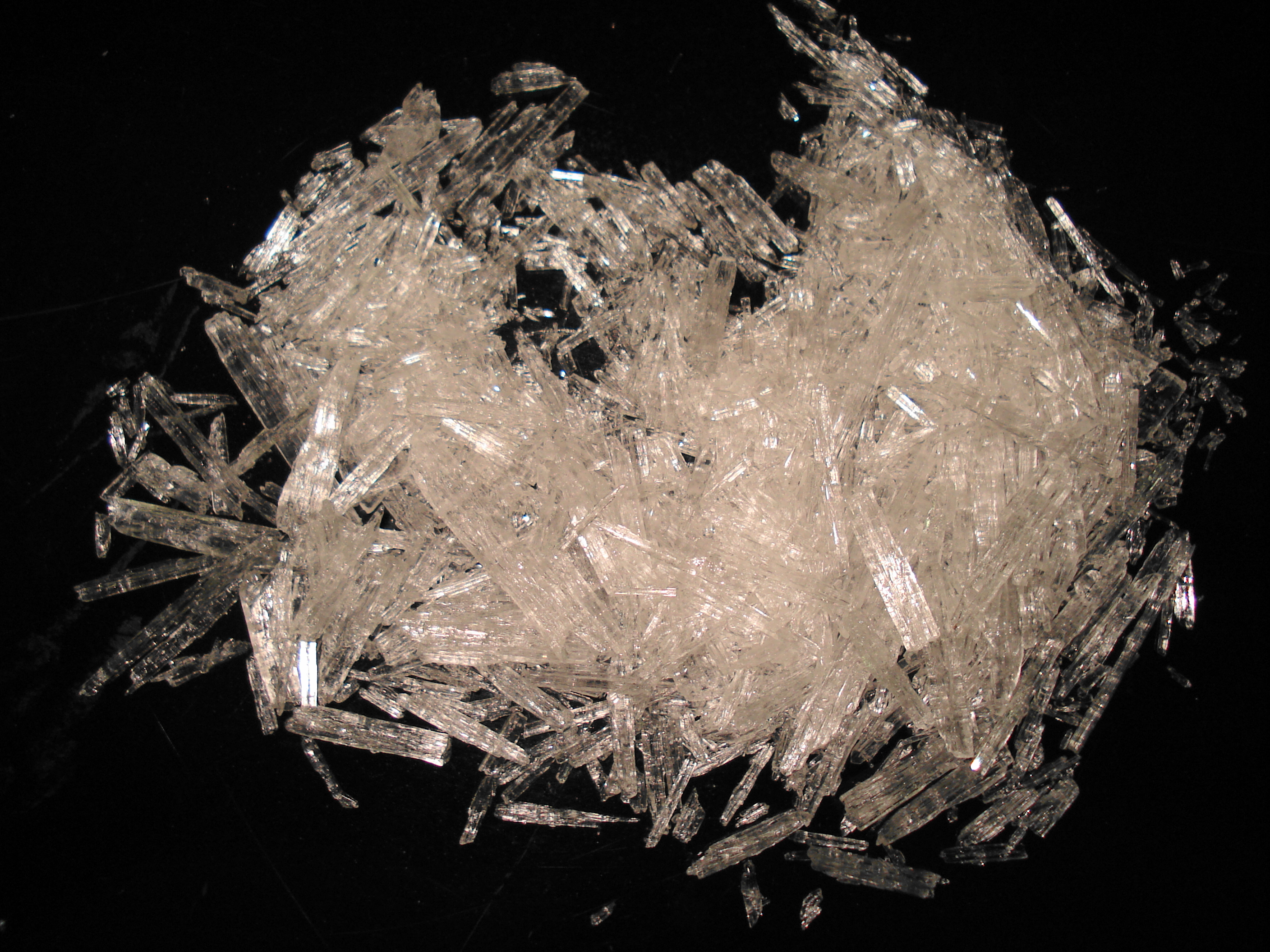 Menthol